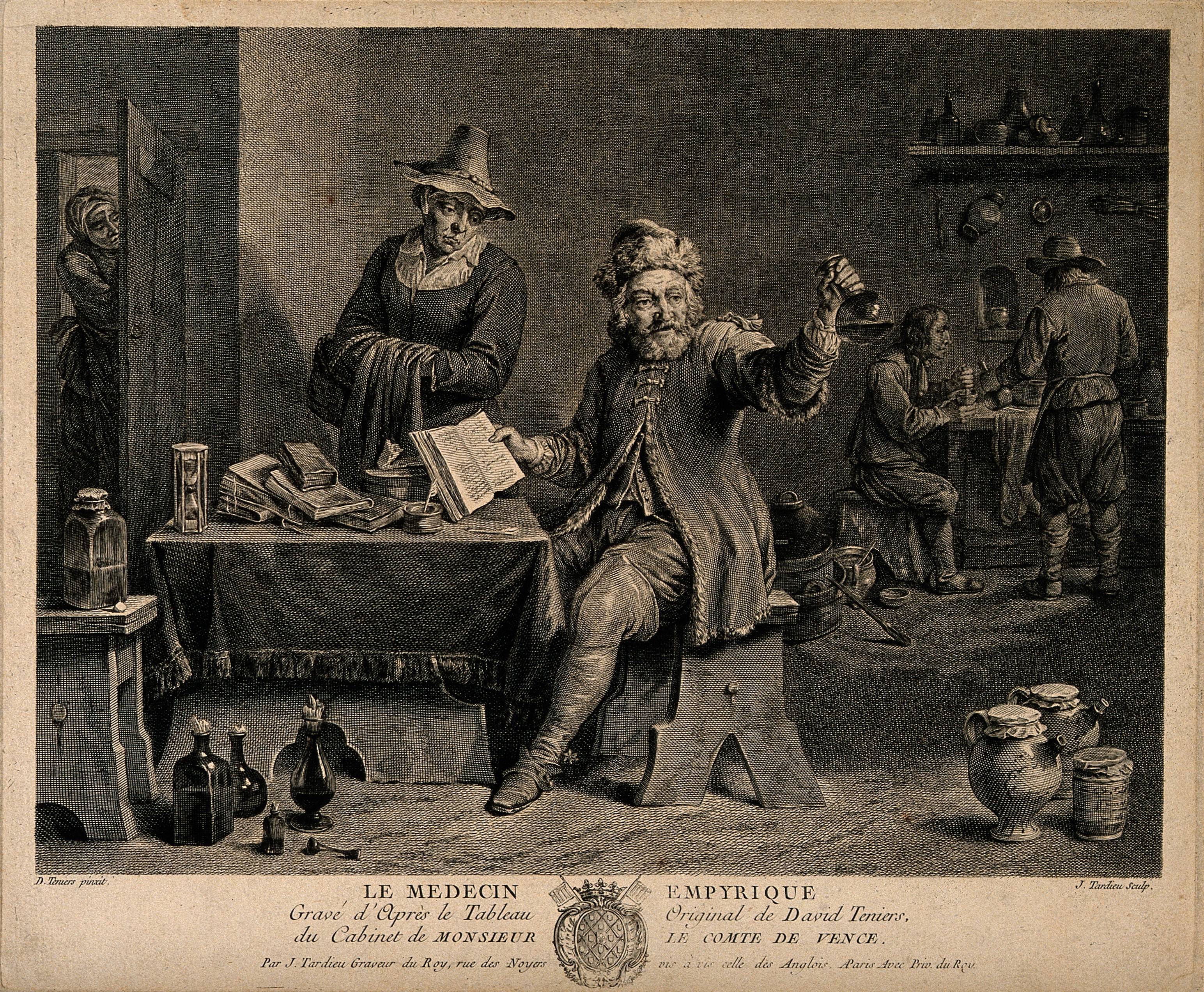 A physician in his surgery and workshop examining a urine flask and referring to a book Engraving by J.B. Tardieu after D. Teniers. Iconographic Collections Keywords: David Teniers; Jean-Baptiste Pierre Tardieu